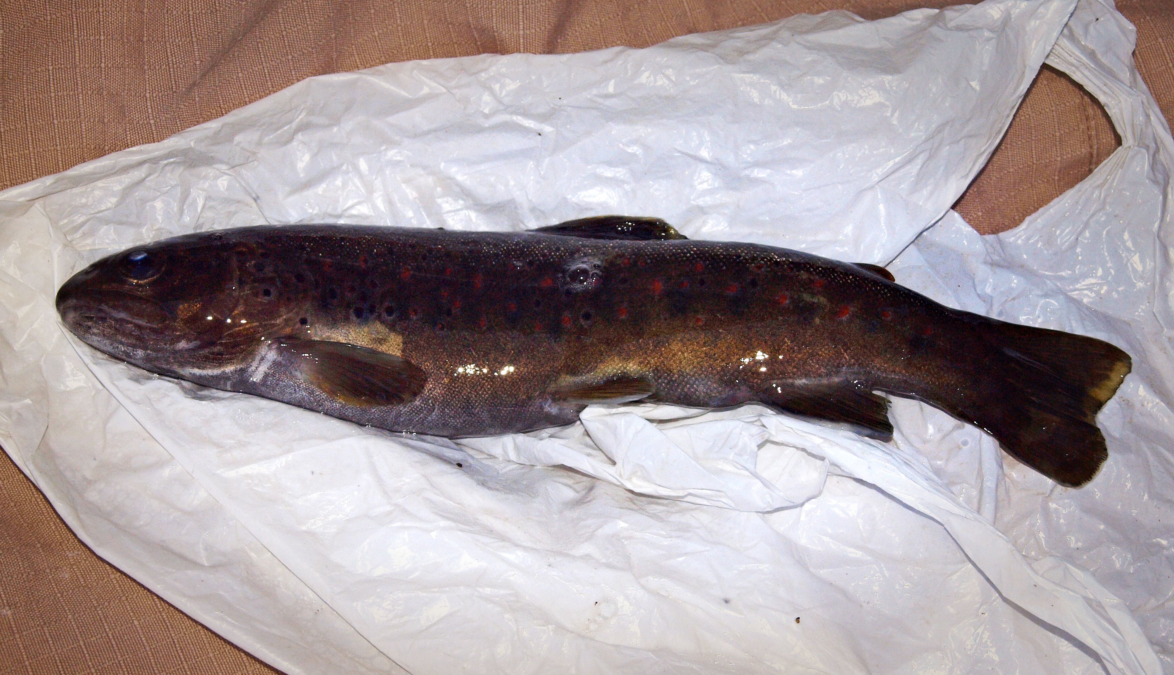 Salmo cettii or Salmo trutta macrostigma. The taxonomy of genus Salmo is not exactly clear, Kottelat and Freyhof[1] treat them as conspecific, fishbase recognizes both (sub)species[2]. Both Salmo cettii and Salmo trutta macrostigma are not identical to Salmo macrostigma, a species endemic to Algeria.[3]